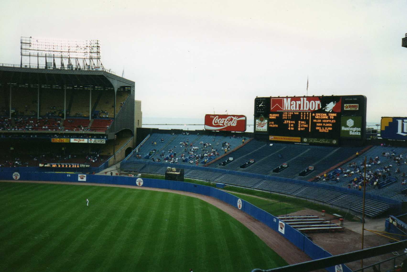 View of Cleveland Municipal Stadium outfield stands and beyond.